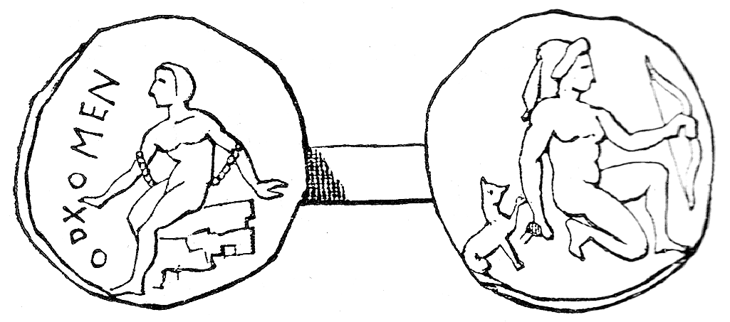 Illustration from Illustrerad verldshistoria by E. Wallis, volume I. "Coin from Orchomeno, Arcadia"